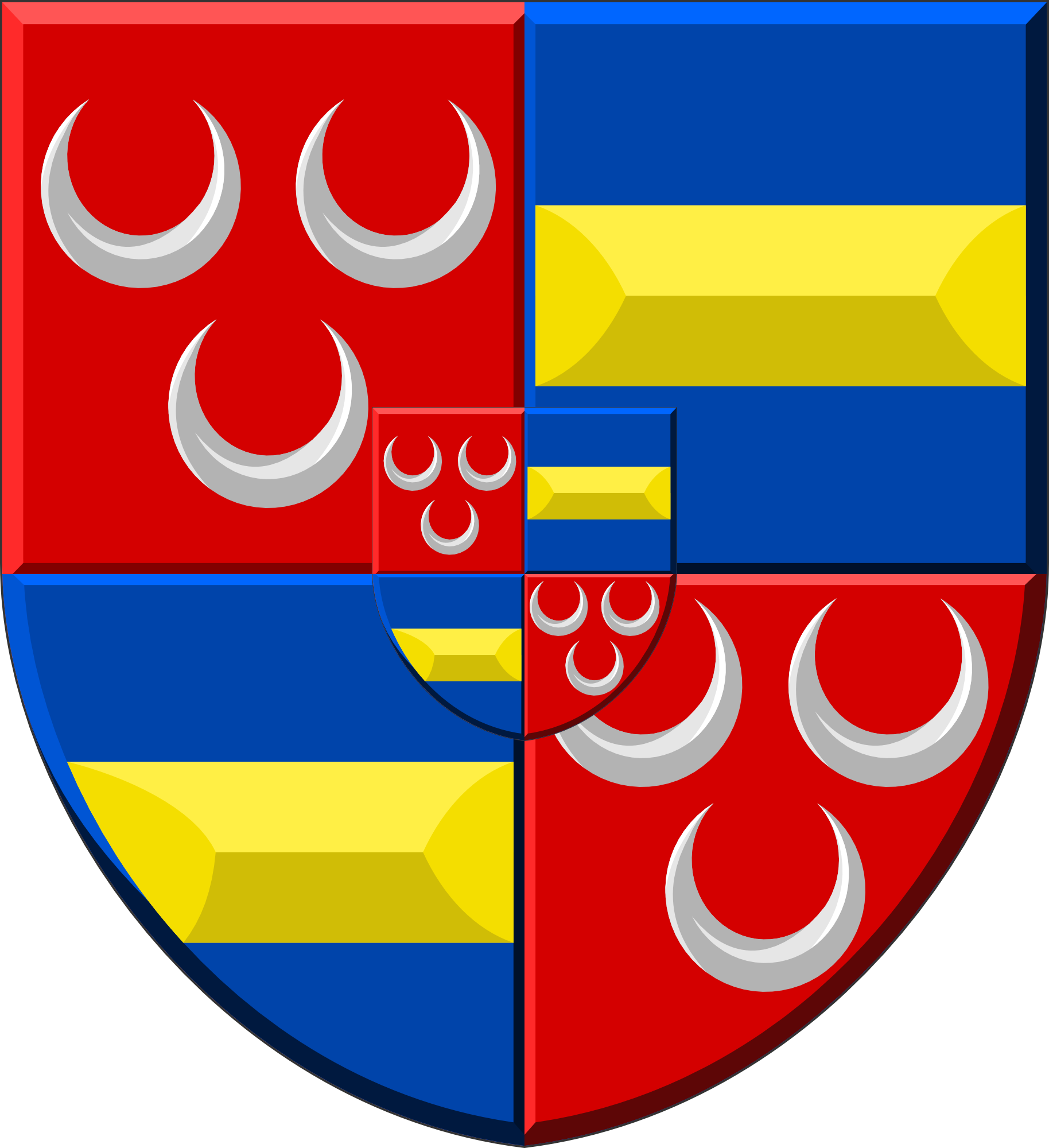 (Augmented) Arms of the Dutch noble family Van Duvenvoorde (also written Van Duvenvoirde) and their (direct) descendants of the line Van Wassenaer Obdam. (Obdam is also written as Opdam) The simple and augmented weapons coexisted simultaneously.